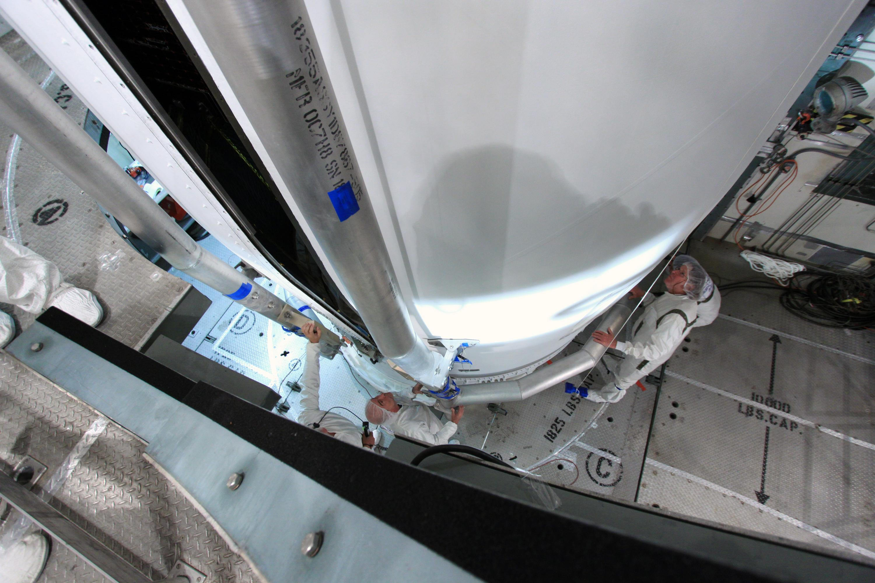 At Cape Canaveral Air Force Station's Space Launch Complex 17B in Florida, these spacecraft technicians may be the last persons to glimpse NASA's twin Gravity Recovery and Interior Laboratory, or GRAIL, spacecraft as the sections of the Delta payload fairing close around them.